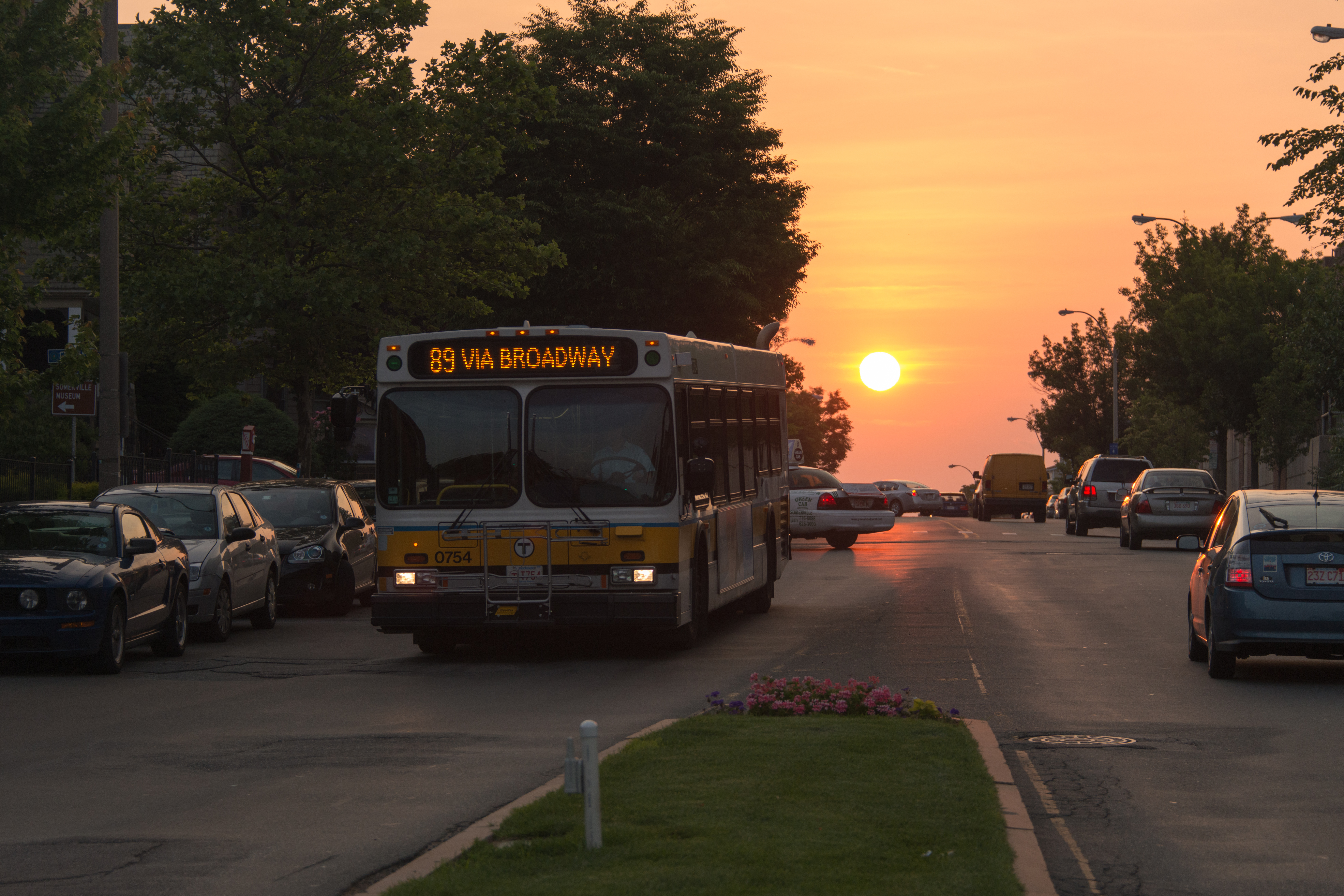 A MBTA bus running route #89 on Broadway in Somerville, Massachusetts